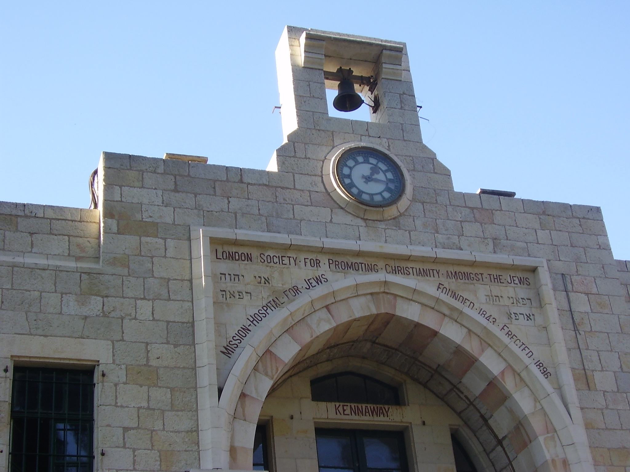 Hospital of the English mission in Jerusalem